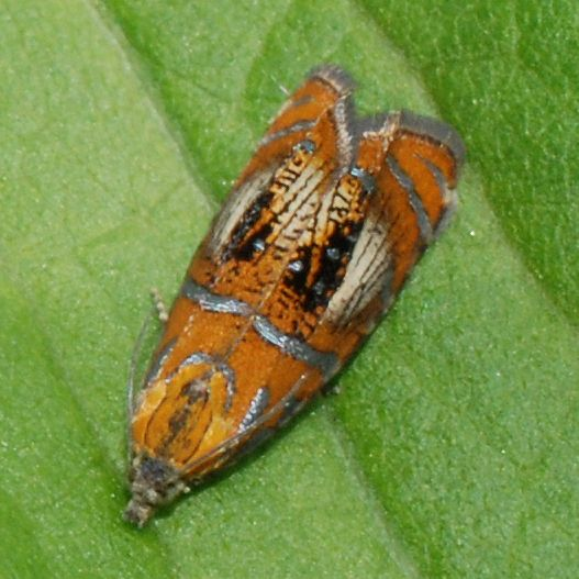 Olethreutes arcuella, Welser Heide, Austria